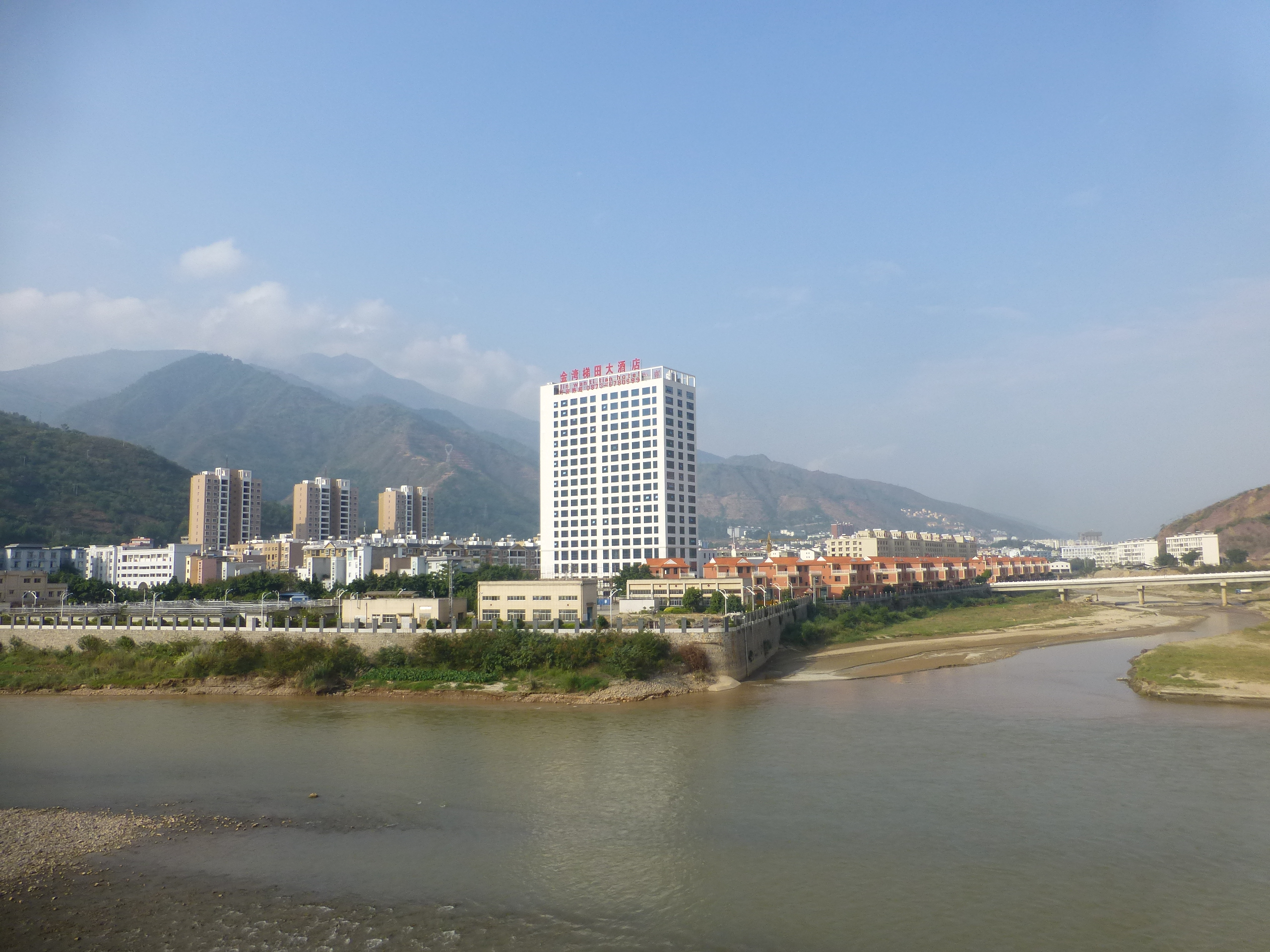 The confluence of the Nansha River (almost dry, in December) and the Red River in Nansha Town, Yuanyang County, Yunnan